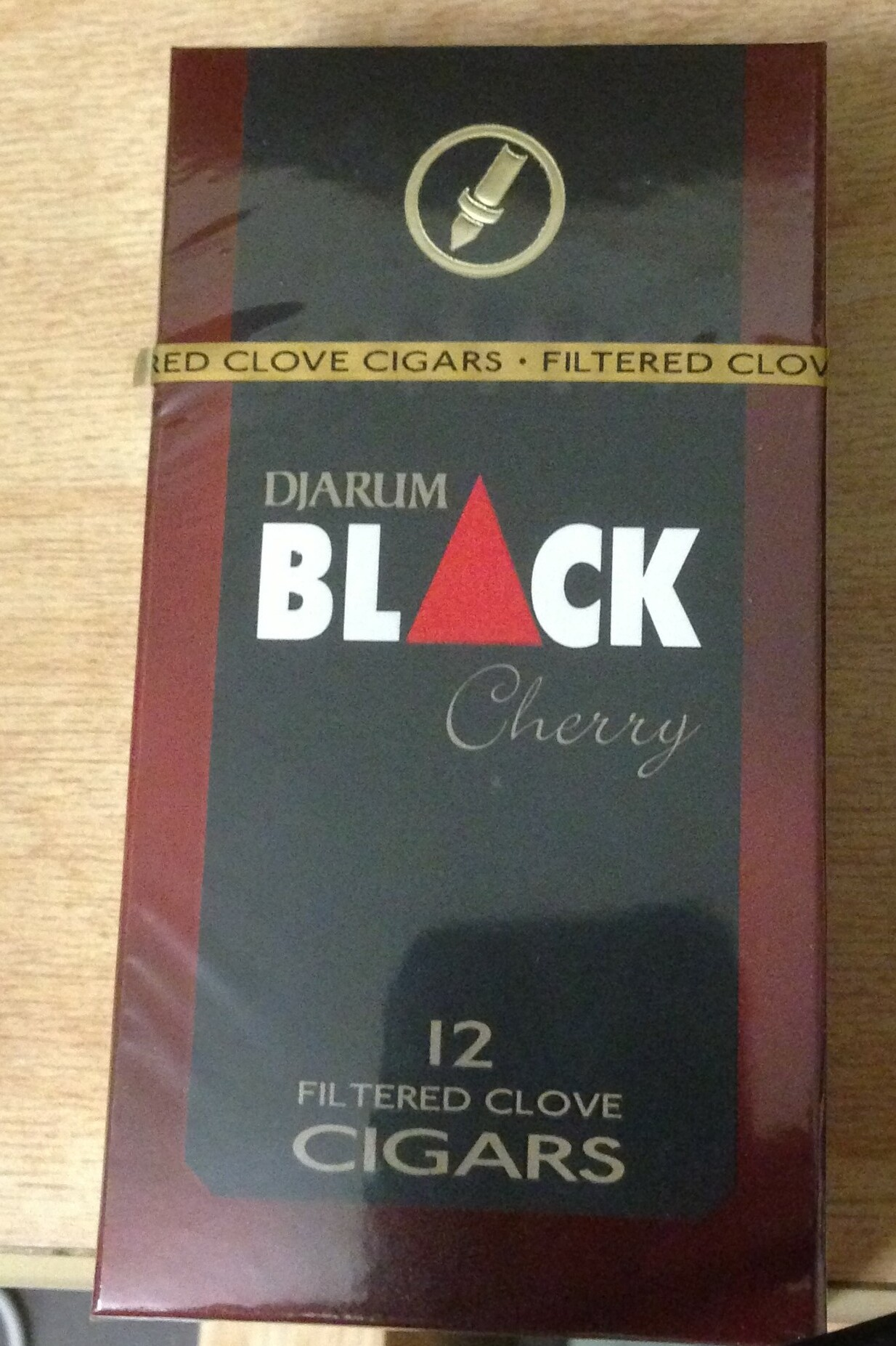 A pack of twelve Djarum Black Cherry clove filtered cigars from the United States.